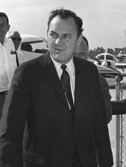 Governor (1967-1971) Claude Kirk, Jr. visited DeLand Airport in 1967.